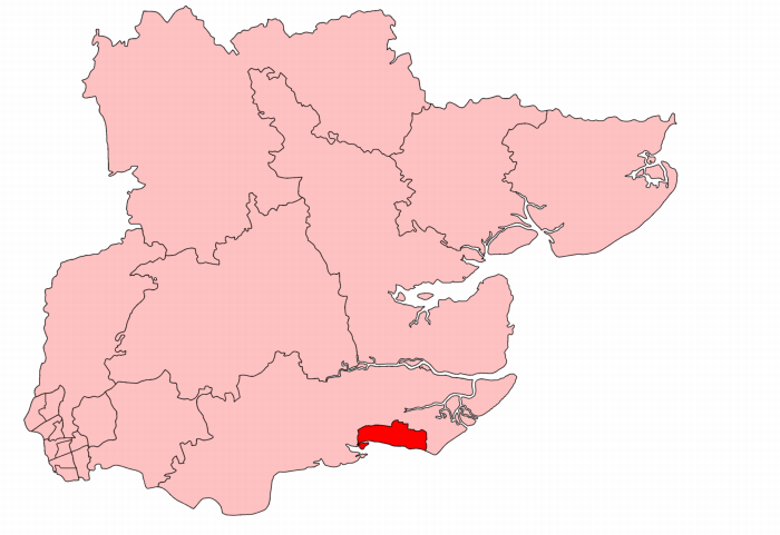 A map of Southend constituency within Essex, as it existed from 1918 to 1950.